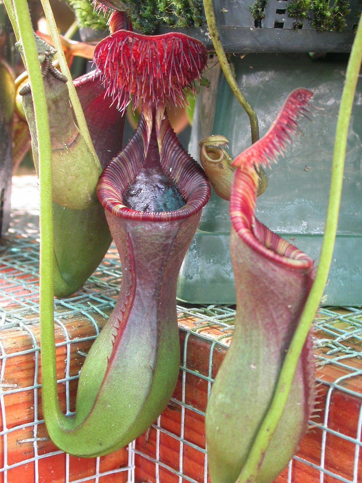 Here is a photo of my cultivated N. lowii. -Jeremiah